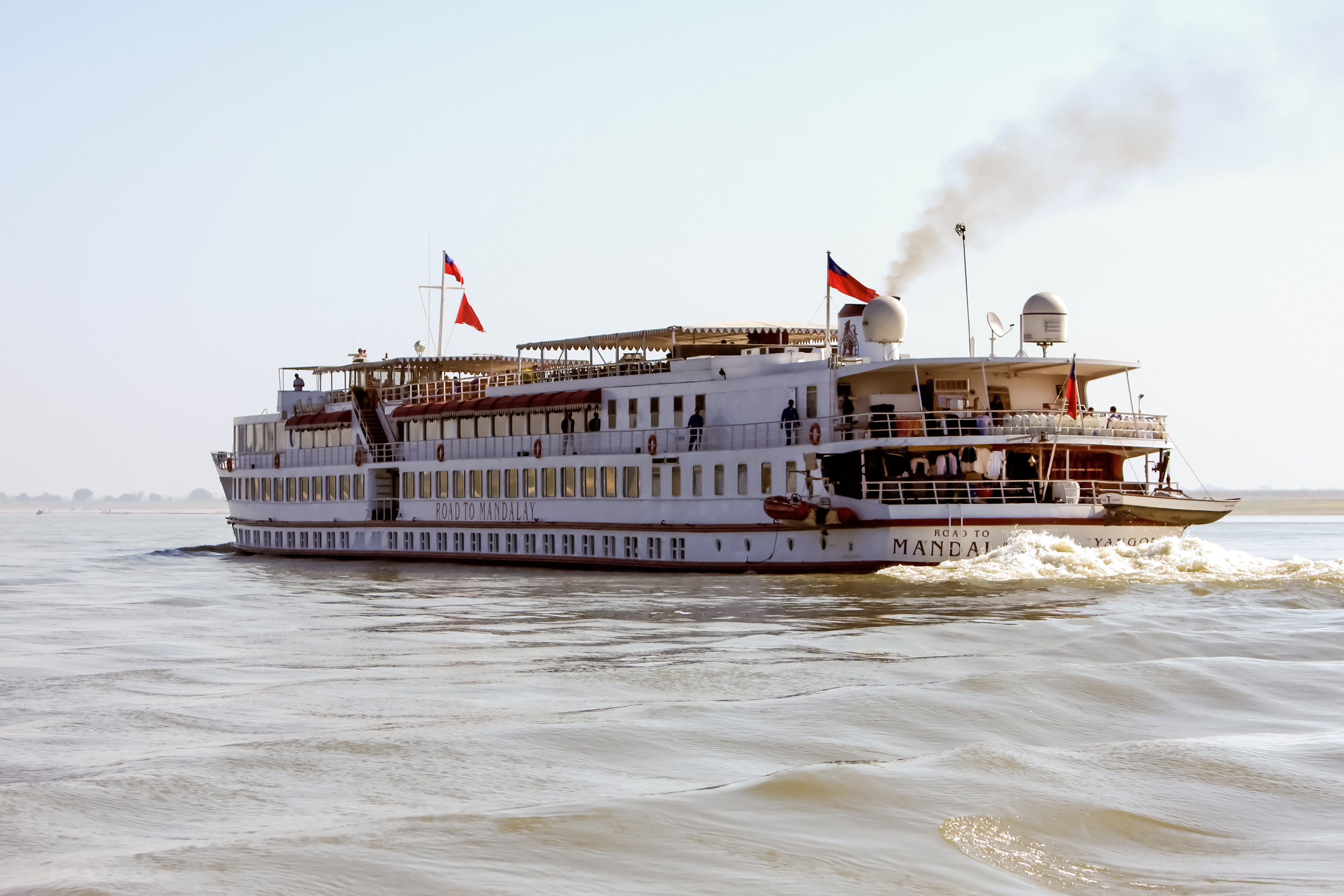 River cruise ship Road to Mandalay at the Ayeyarwady River, Myanmar.